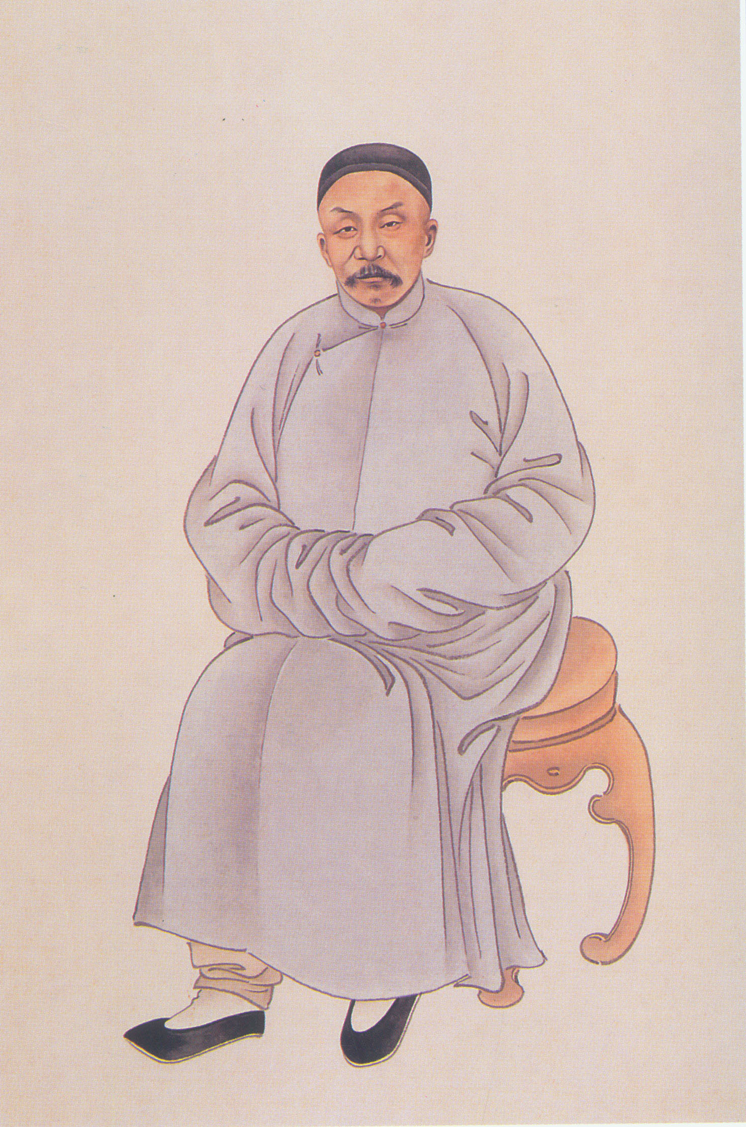 Sun Yirang, scholar of the Qing Dynasty.